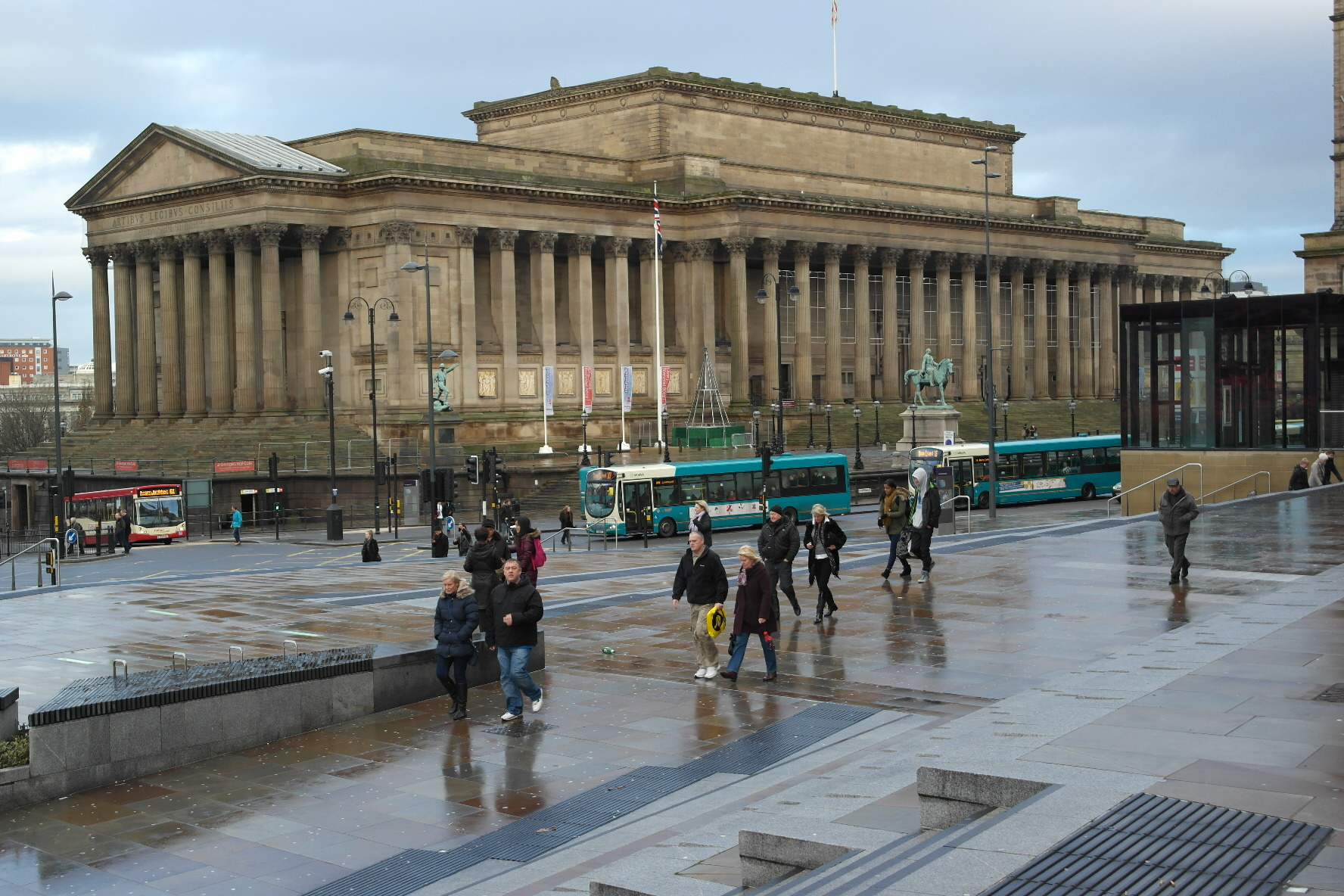 St George's Hall, Liverpool